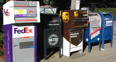 Image taken by User:Minesweeper on December 14, en:2003 and released into the public domain. From left to right, the post boxes belong to FedEx Corporation, University of California, Berkeley, United Parcel Service, and two from the United States Postal Service (the one on the left is for Express Mail only)